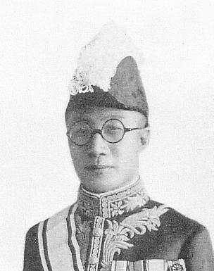 Feng Hanqing